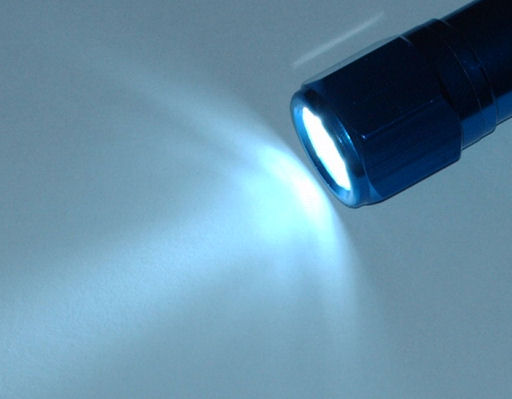 A small battery-operated flashlight consisting of eight white light emitting diodes (LEDs).